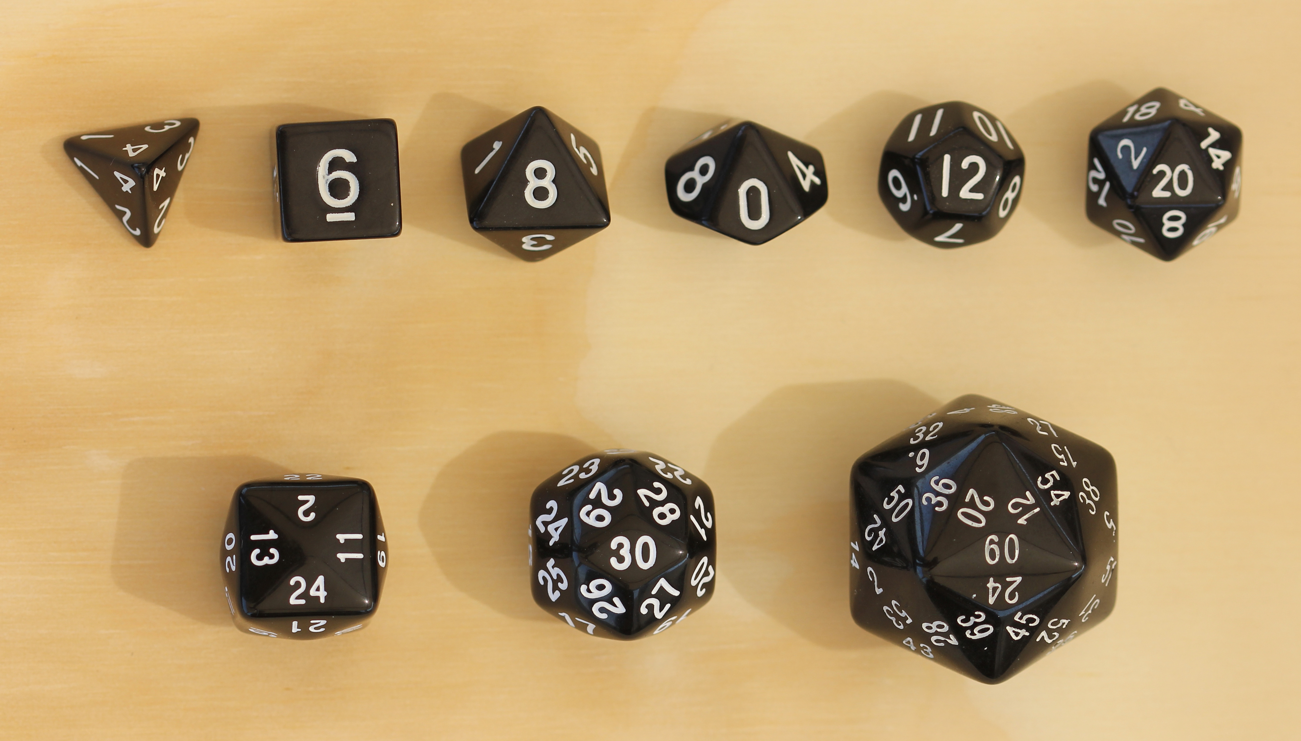 A regular tetrahedron, a cube, a regular octahedron, a pentagonal trapezohedron, a regular dodecahedron, a regular icosahedron, a tetrakis cube, a rhombic triacontahedron and a triakis icosahedron.